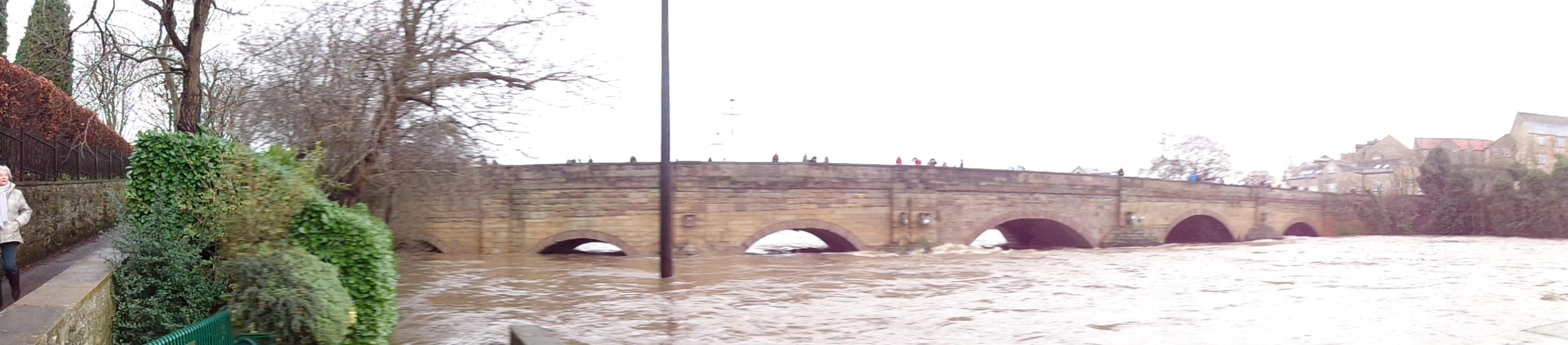 Wetherby Bridge during the December 2015 floods, the flooding seems to have come to a head a couple of hours before the photograph was taken. The bridge is currently closed; not due to structural concern for the bridge but because an embankment wall has collapsed onto the road at the south side of the bridge. Observers to the floods can be seen lining the bridge. Taken on the afternoon of Saturday the 26th of December 2015.